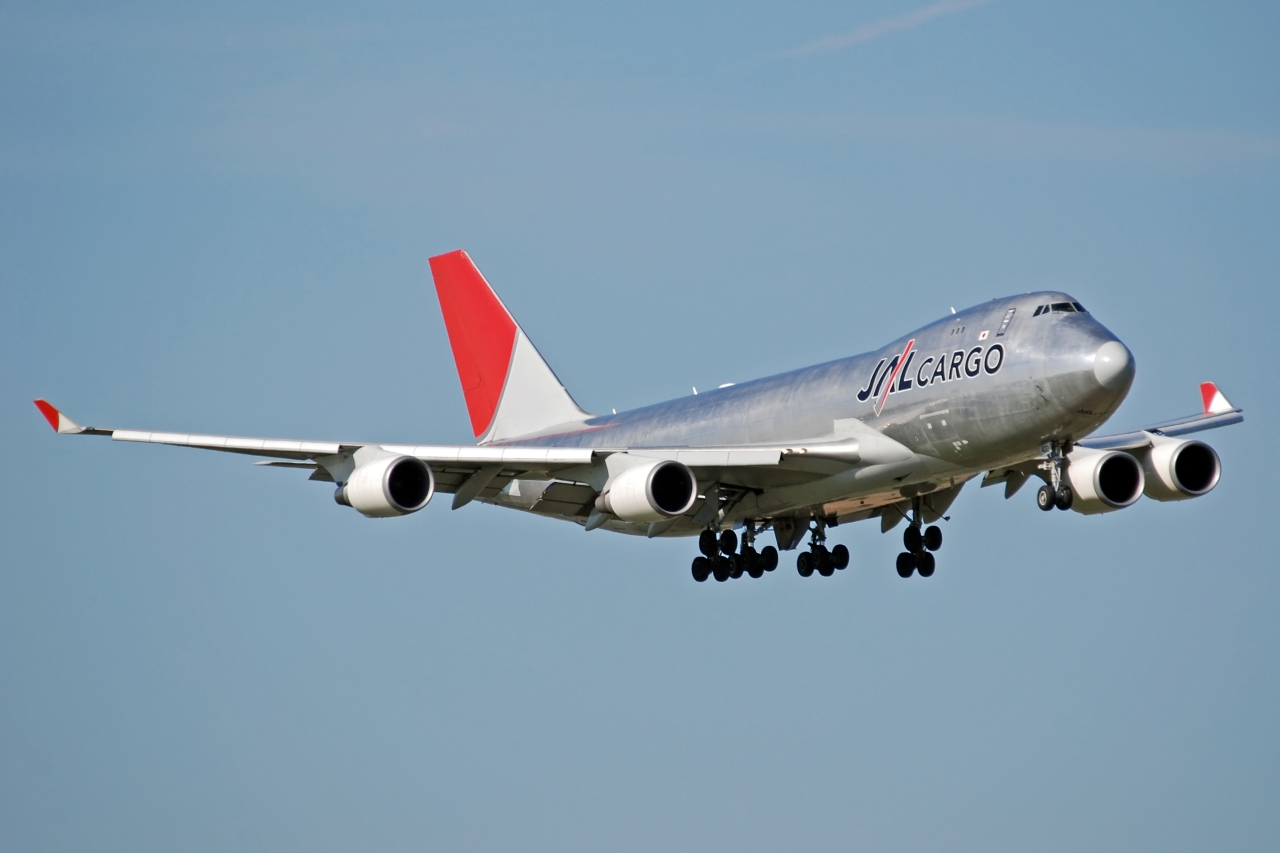 First time spotting of the 402, the 401 I have seen many times. Boeing 747-446F(SCD) Amsterdam schiphol [AMS / EHAM] 14-09-2008